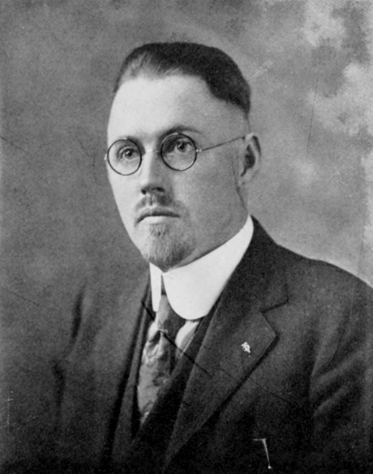 Portrait photo of Dr. John R. Brinkley (1885-1942).